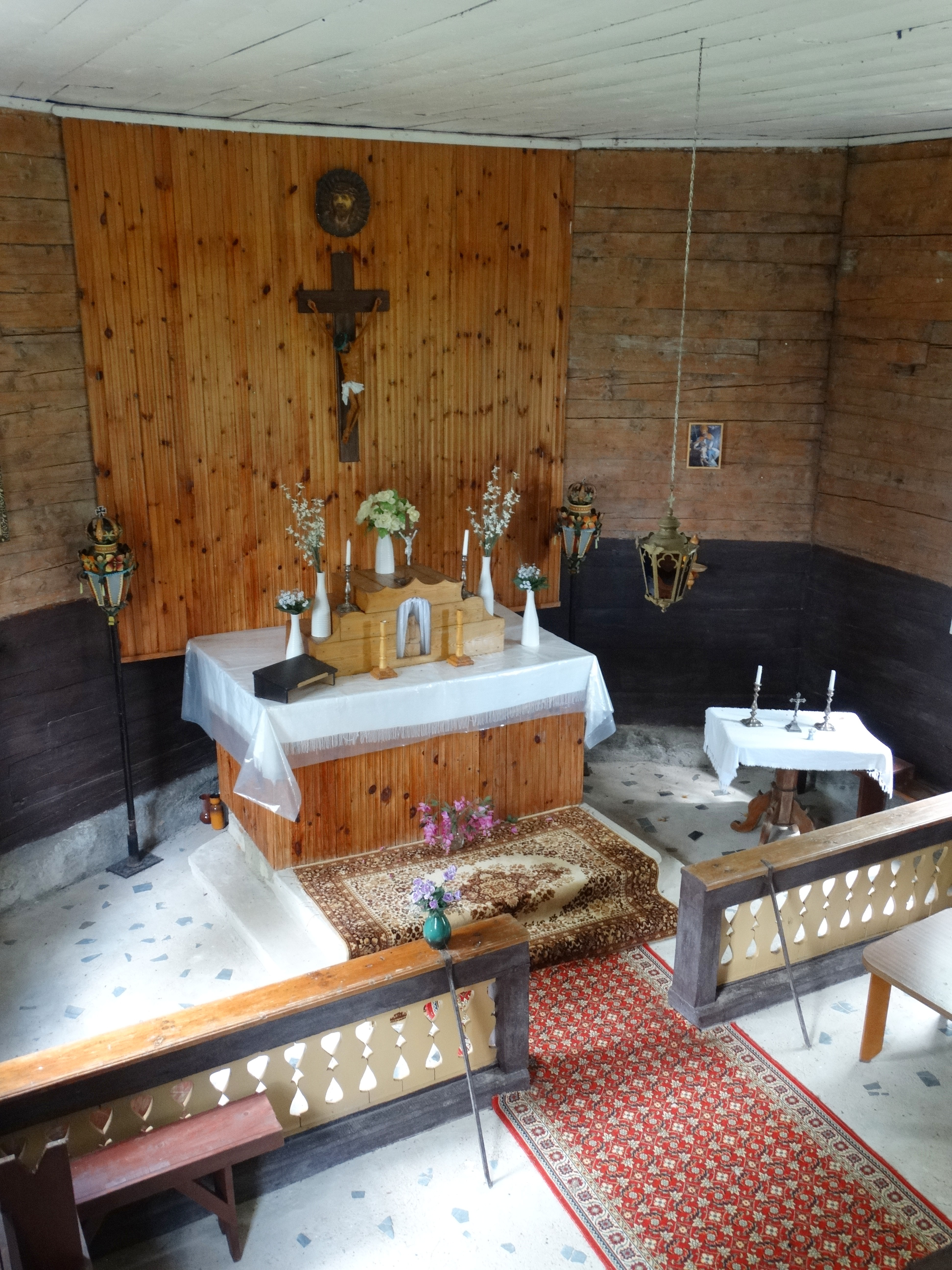 Jukniškė cemetery chapel, interior, Kelmė district, Lithuania